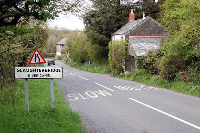 Descending the hill to the River Camel along the B3314 road at Slaughterbridge, north Cornwall